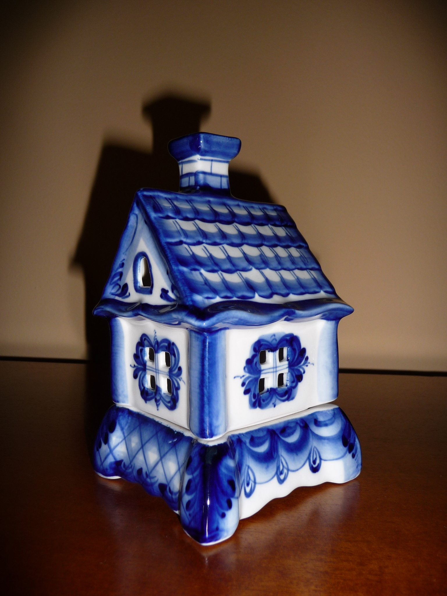 Gzhel ceramic. House to keep a candel inside